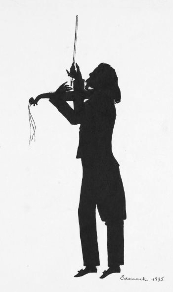 Silhouette of Niccolò Paganini (1782-1840) by August Edouart (1789-1861).